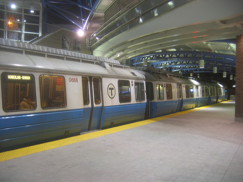 A train of 0600 cars on Boston's Blue Line at Airport Station